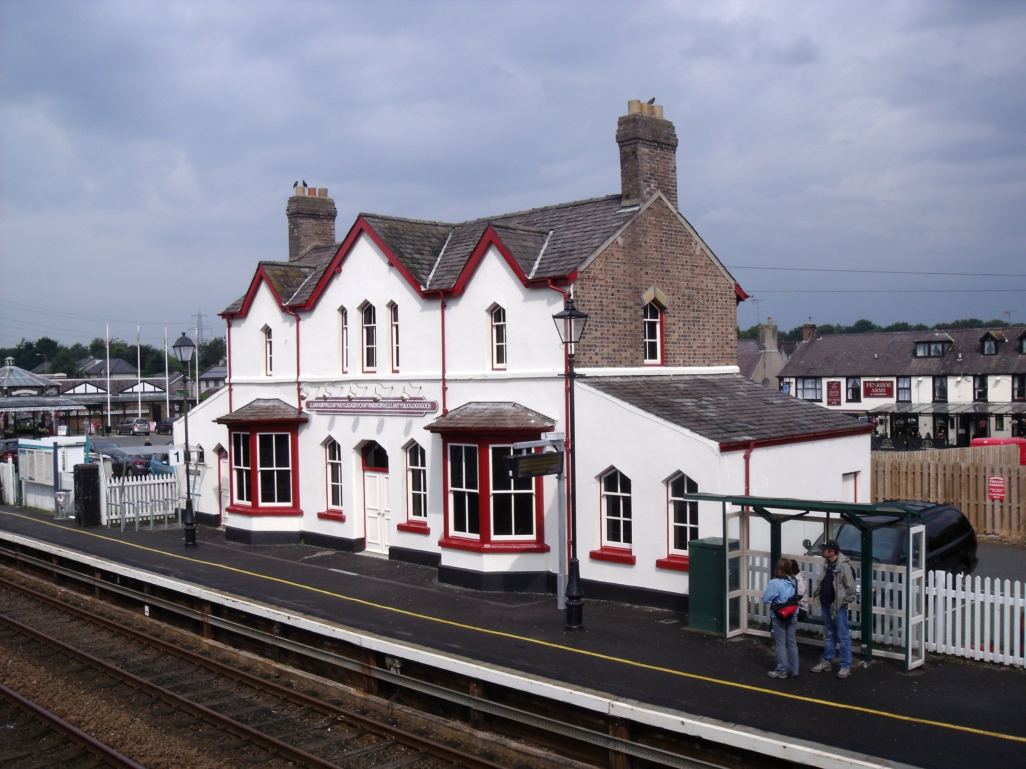 Llanfairpwllgwyngyllgogerychwyndrobwllllantisiliogogogoch station on the Holyhead North Wales line. Town is famous for its long name and there is now a fantastic tourist shop providing all kinds of souvenirs, hobbies and clothing.